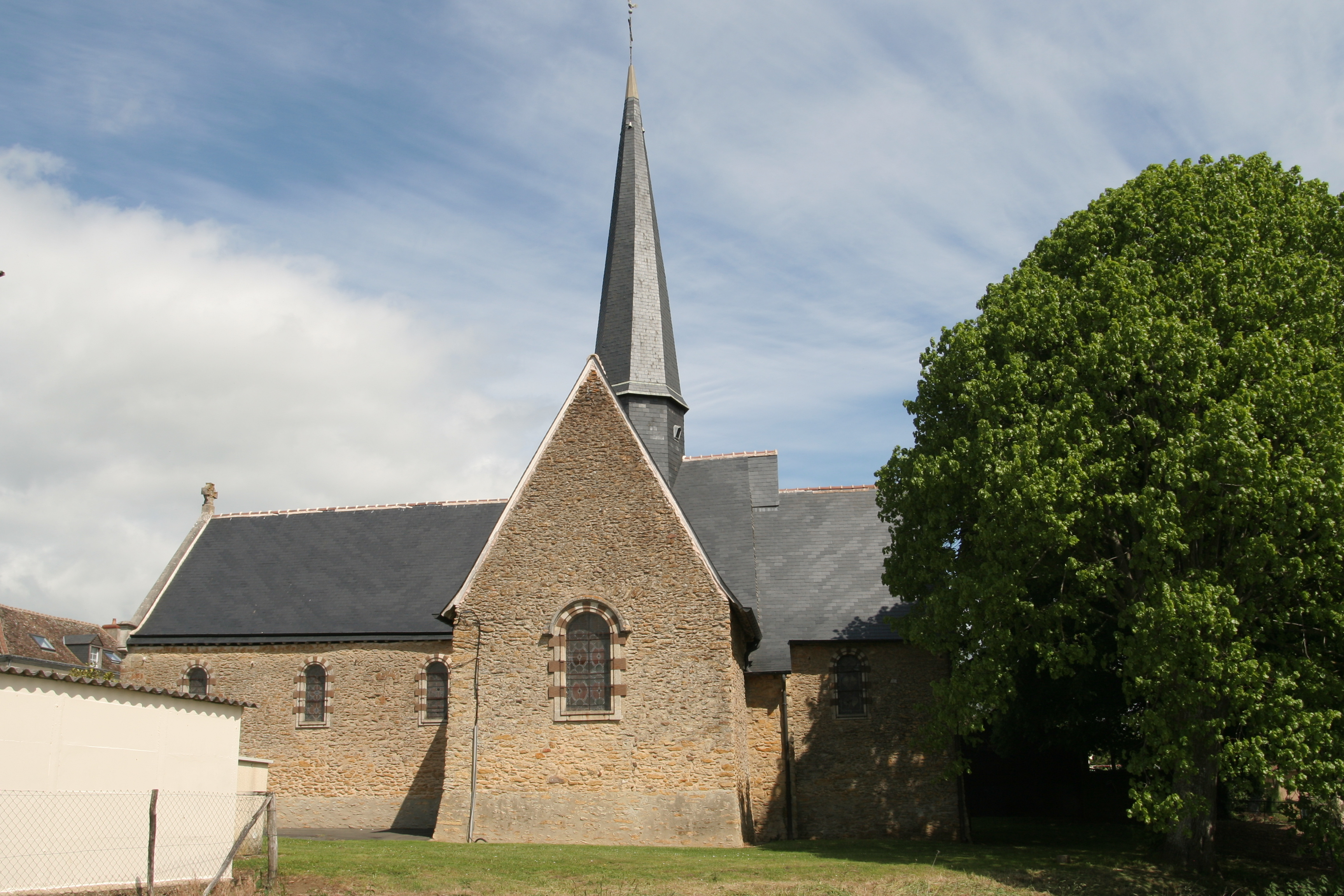 Church of Courcebœufs.